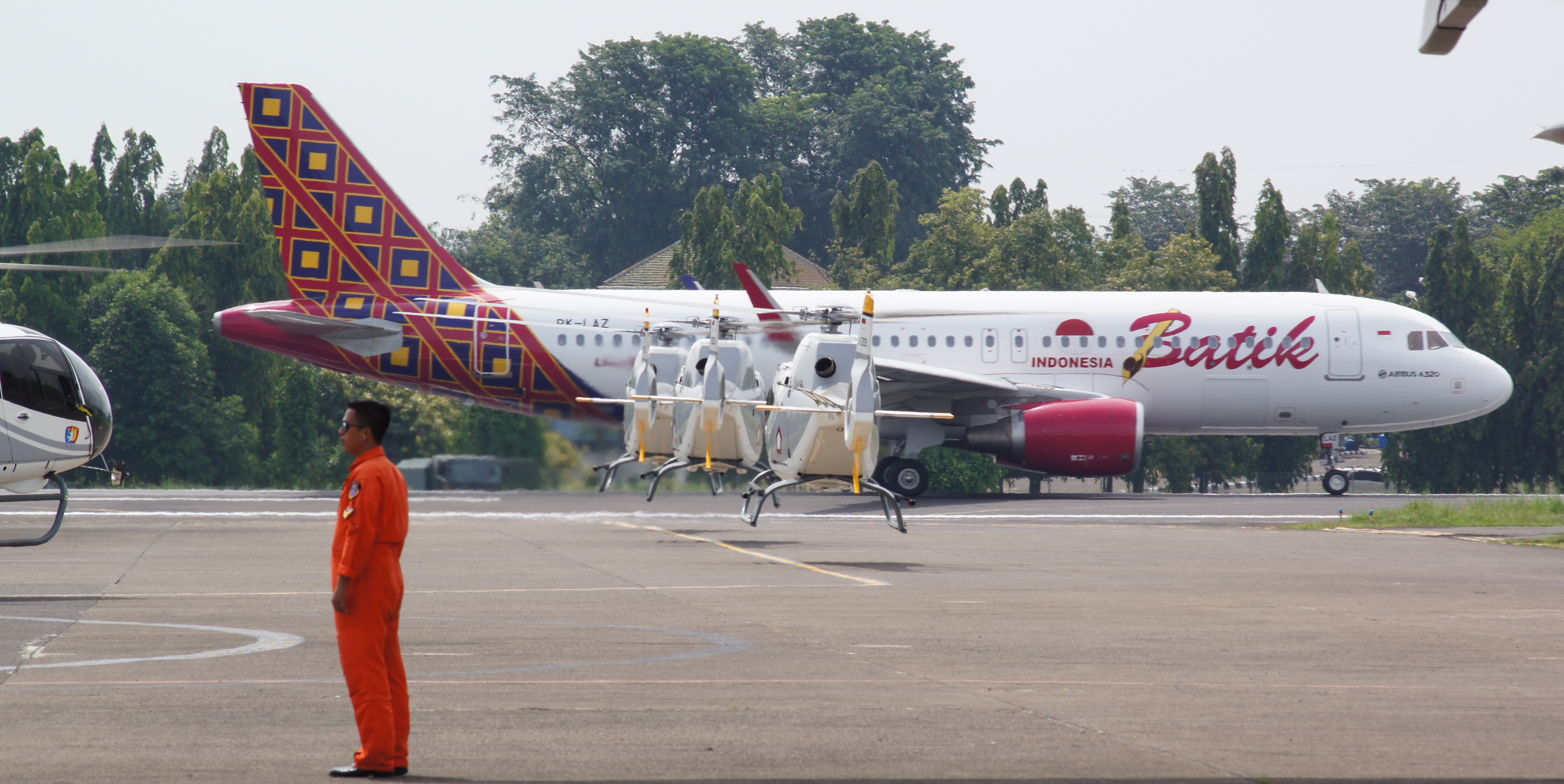 3 TNI-AU Eurocopter EC-120 Colibris hovertaxiing to the hangars give way to a Batik Air Airbus A320